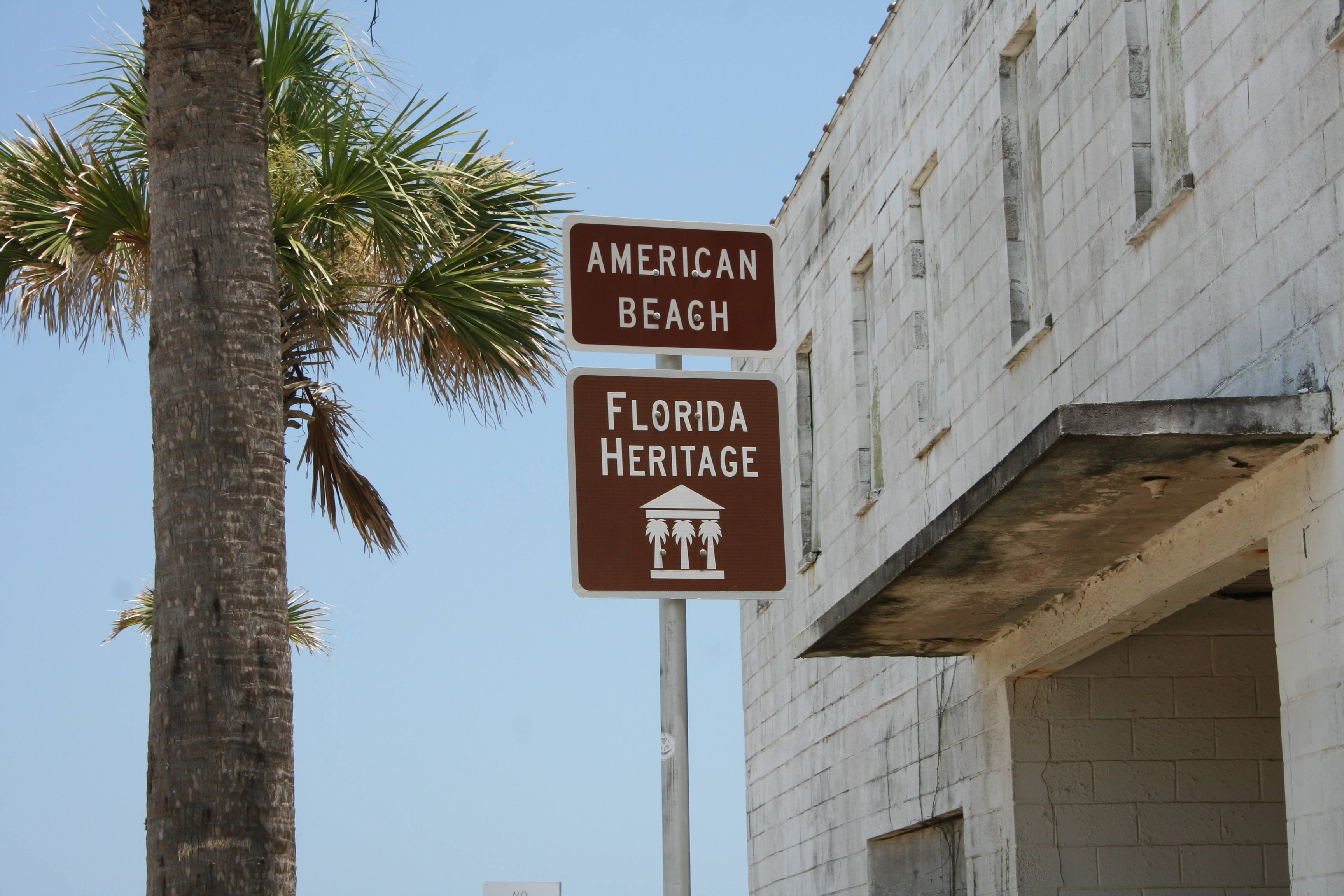 Beach access to American Beach, FL.